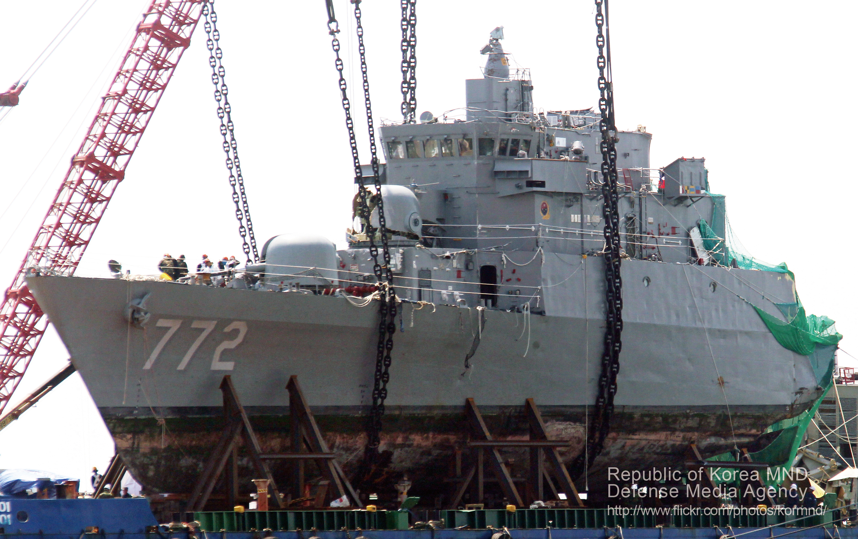 2010 국방화보 Rep. of Korea, Defense Photo Magazine 침몰한 천안함의 함수 인양 작업이 진행된 4월 24일 백령도 사고 해역에서 처참히 찢겨진 천안함의 함수. Horribly ripped ROKS Cheonan's stem, near ground zero, revealed during its recovery operation, Baengnyeong-do, April 24.